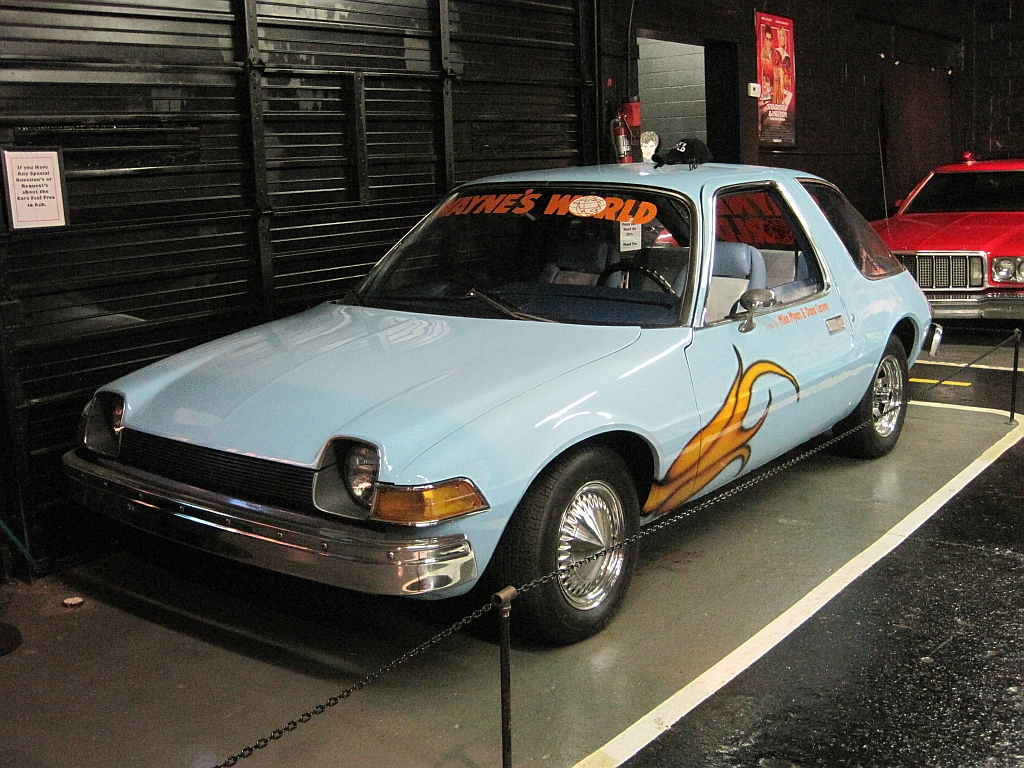 Rusty's TV & Movie Car Museum in Jackson, Tennessee. Wayne's World